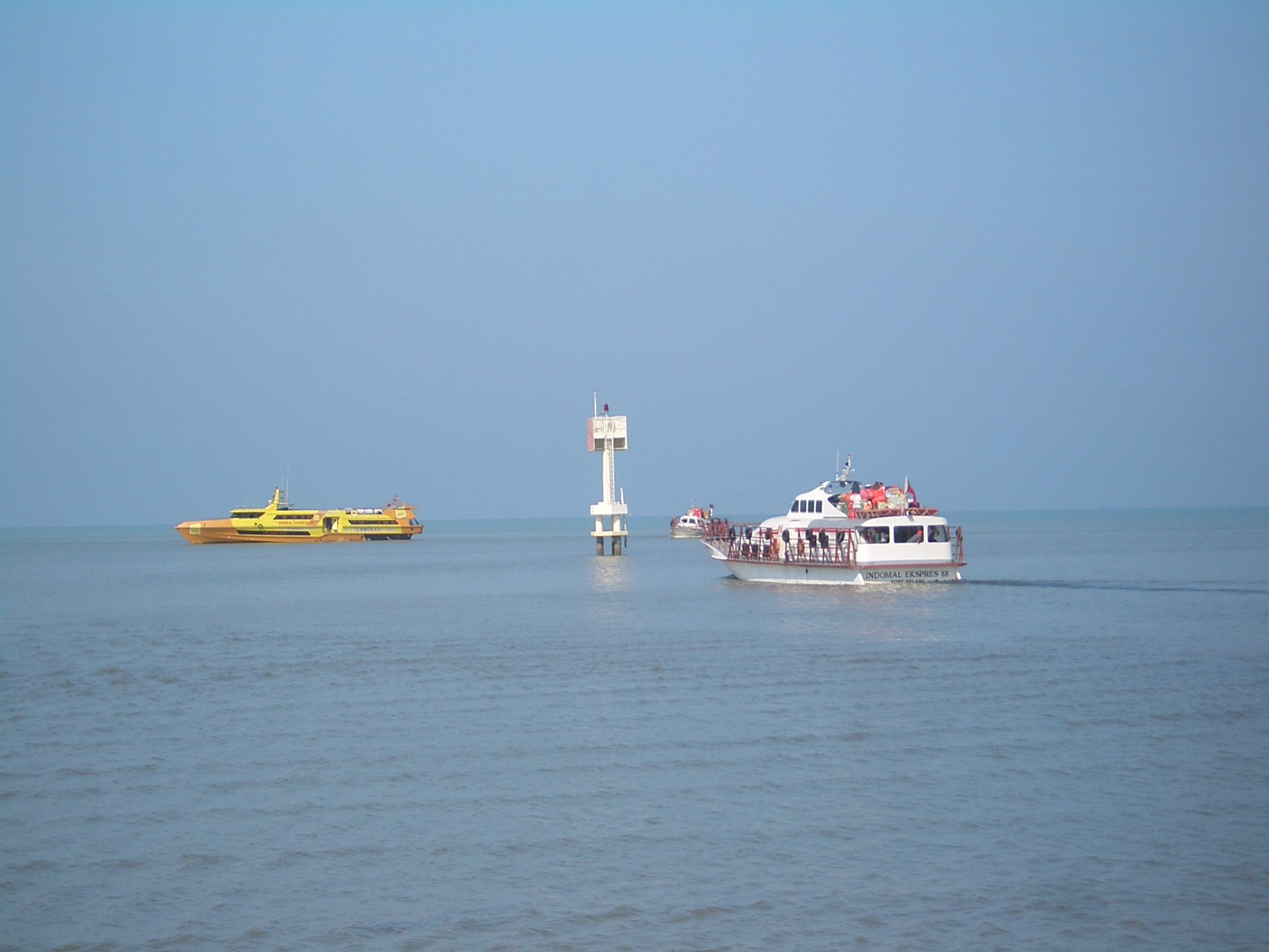 As the big yellow Malaysia-Indonesia ferry boat is anchored offshore, smaller shuttle boats take cargo and passengers to it. Other big boats are seen on the horizon, far in the Strait of Malacca